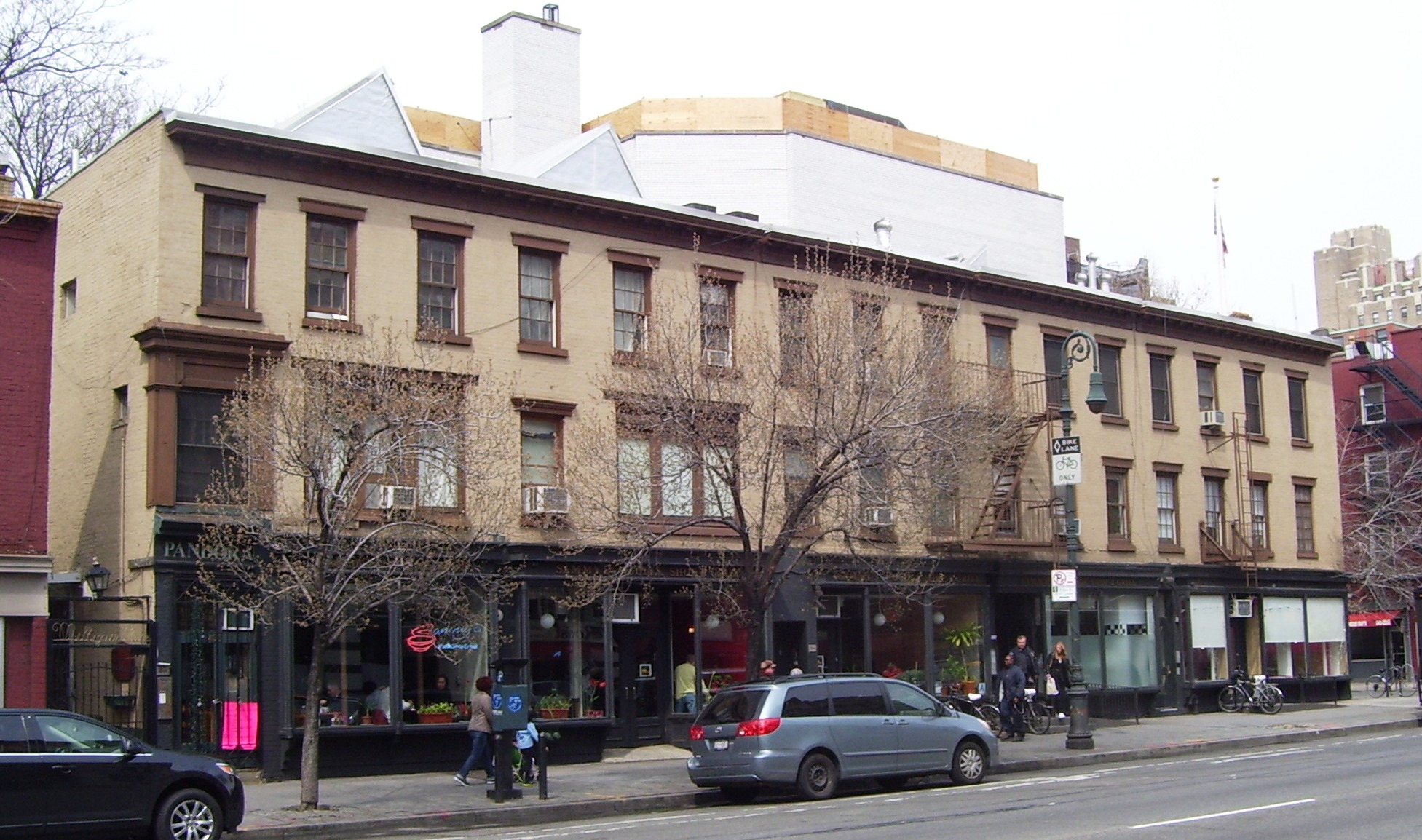 The five houses at 453(left)-461(right) Sixth Avenue between West 10th and 11th Streets in the Greenwich Village neighborhood of Manhattan, New York City, were built in 1852 by Aaron O. Patchin in the Greek Revival style. #453(left) is next to Milligan Place, a private street now made into a courtyard. The building behind the row houses is the Greenwich Village School of the NYC Department of Education. The row houses (now apartments) lie within the Greenwich Village Historic District. (Source: NYCLPC Greenwich Village Designation Report vol. 1)